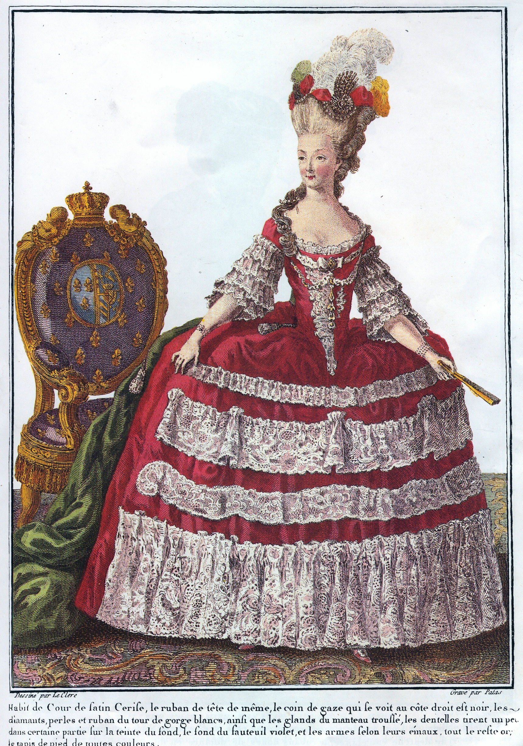 Engraving of queen Marie-Antoinette of France and Navarre, in the Gallerie des modes.